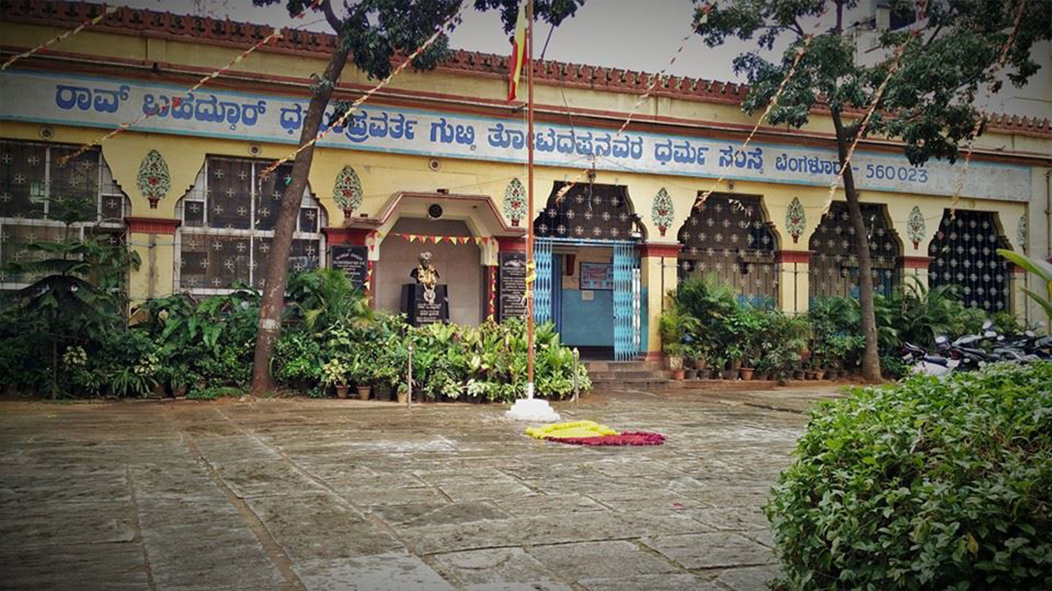 Rao Bahadhur Gubbi Thotadappa Charities (RBDGTC) founded by Gubbi Thotadappa, Majestic, Bangalore, Karnataka